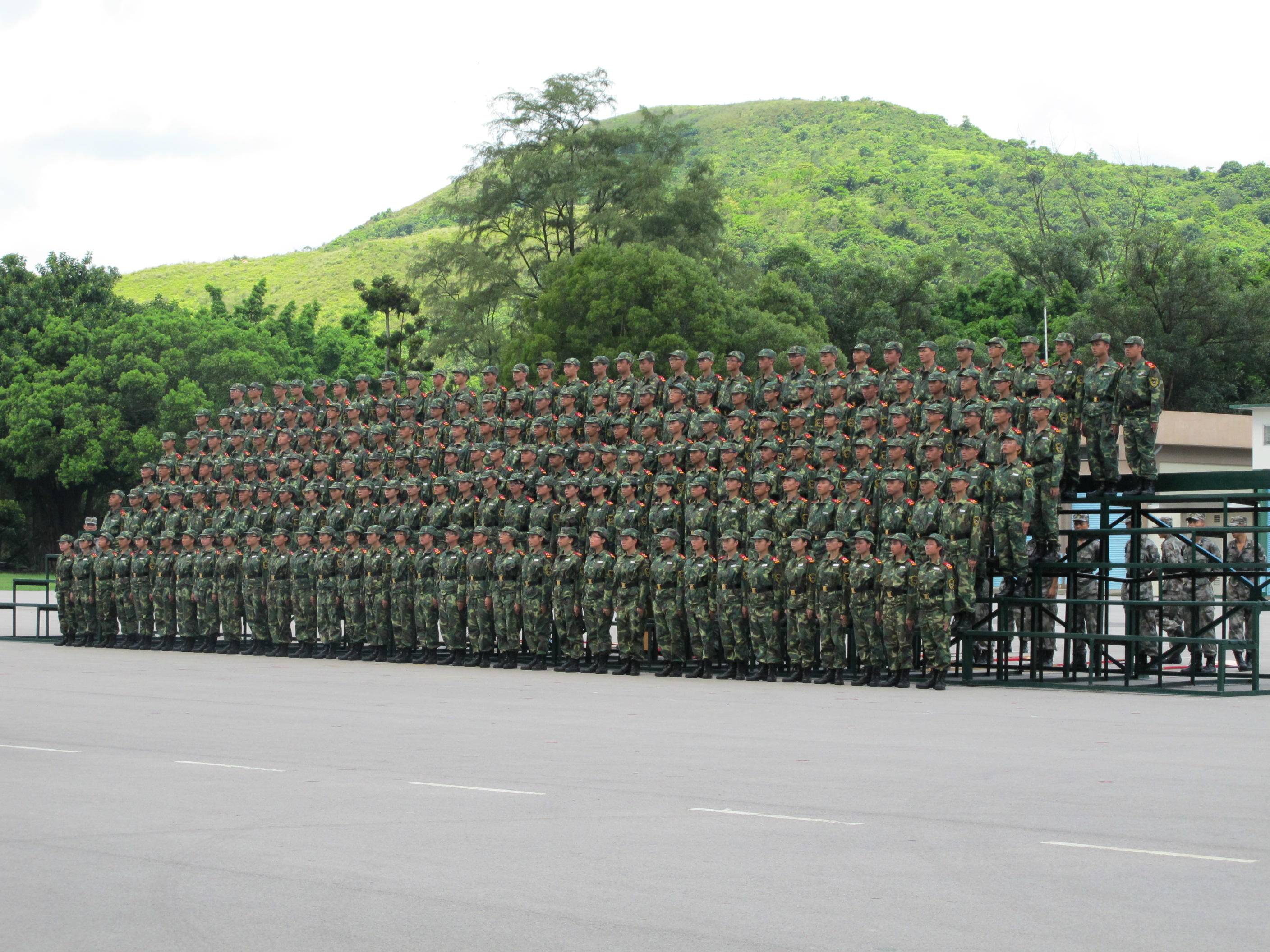 The MSC participants are taking group photo.